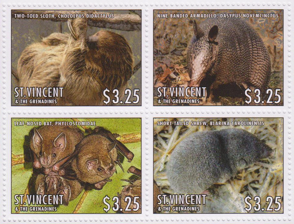 A miniature sheet of St. Vincent and the Grenadines entitled Mammals of the CaribbeanAs noted below, the images used to make the stamps all came from Commons and one stamp is a copyright violation since the license terms of the photograph of the bats were not respected. Therefore, the images of three of the four stamps are PD, but the fourth is subject to the license terms of the original photograph.